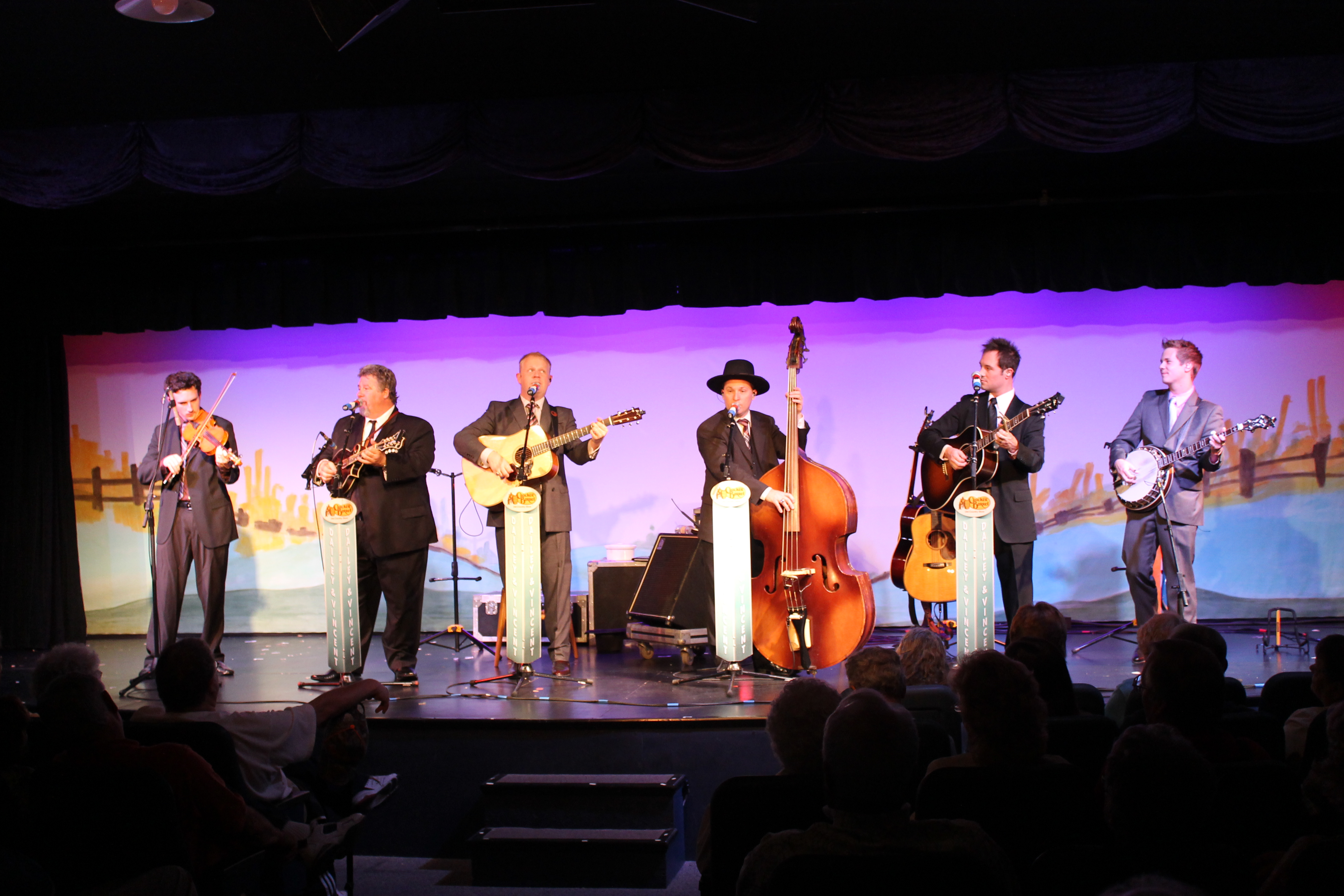 Dailey and Vincent Live in Concert in 2011